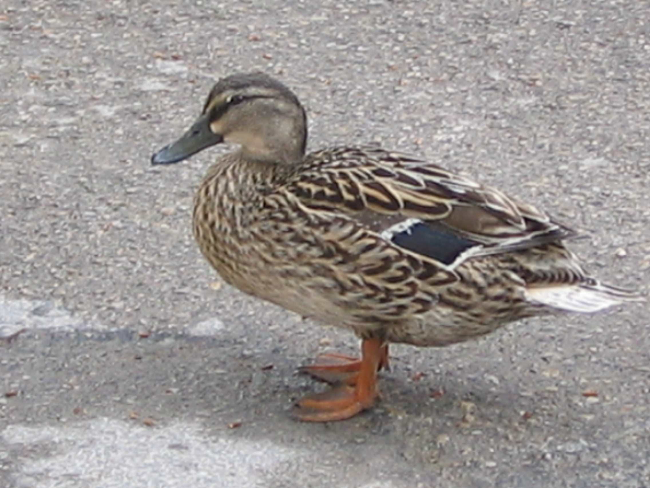 A tipical majorcan Anas platyrhynchos duck.